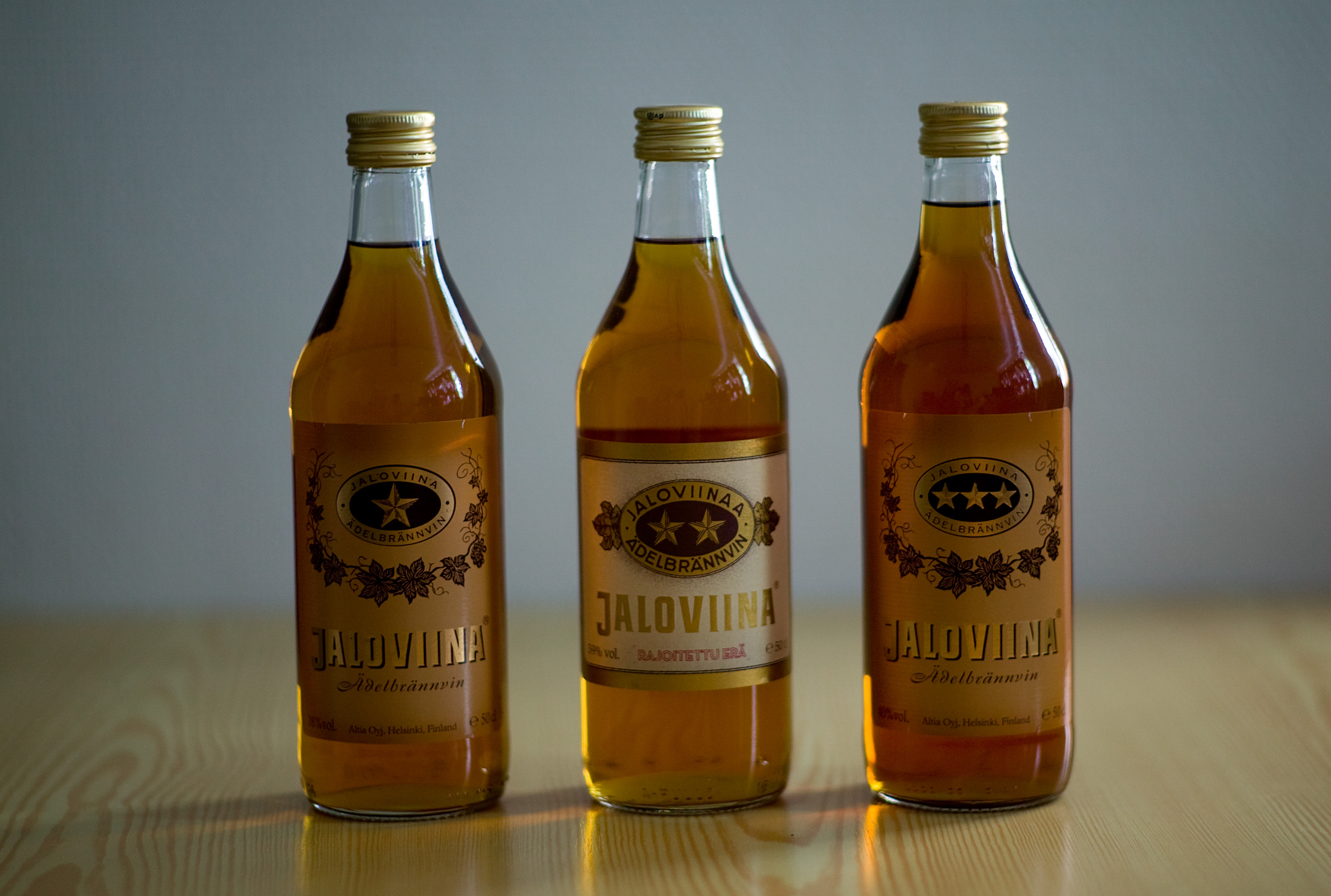 One-, two- and three-star Jaloviina bottles.